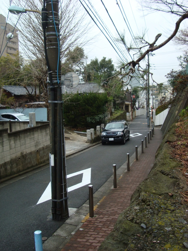 Seizoroi-Zaka street at Harajuku, Tokyo (Jingu-mae 2, Shibuya city)